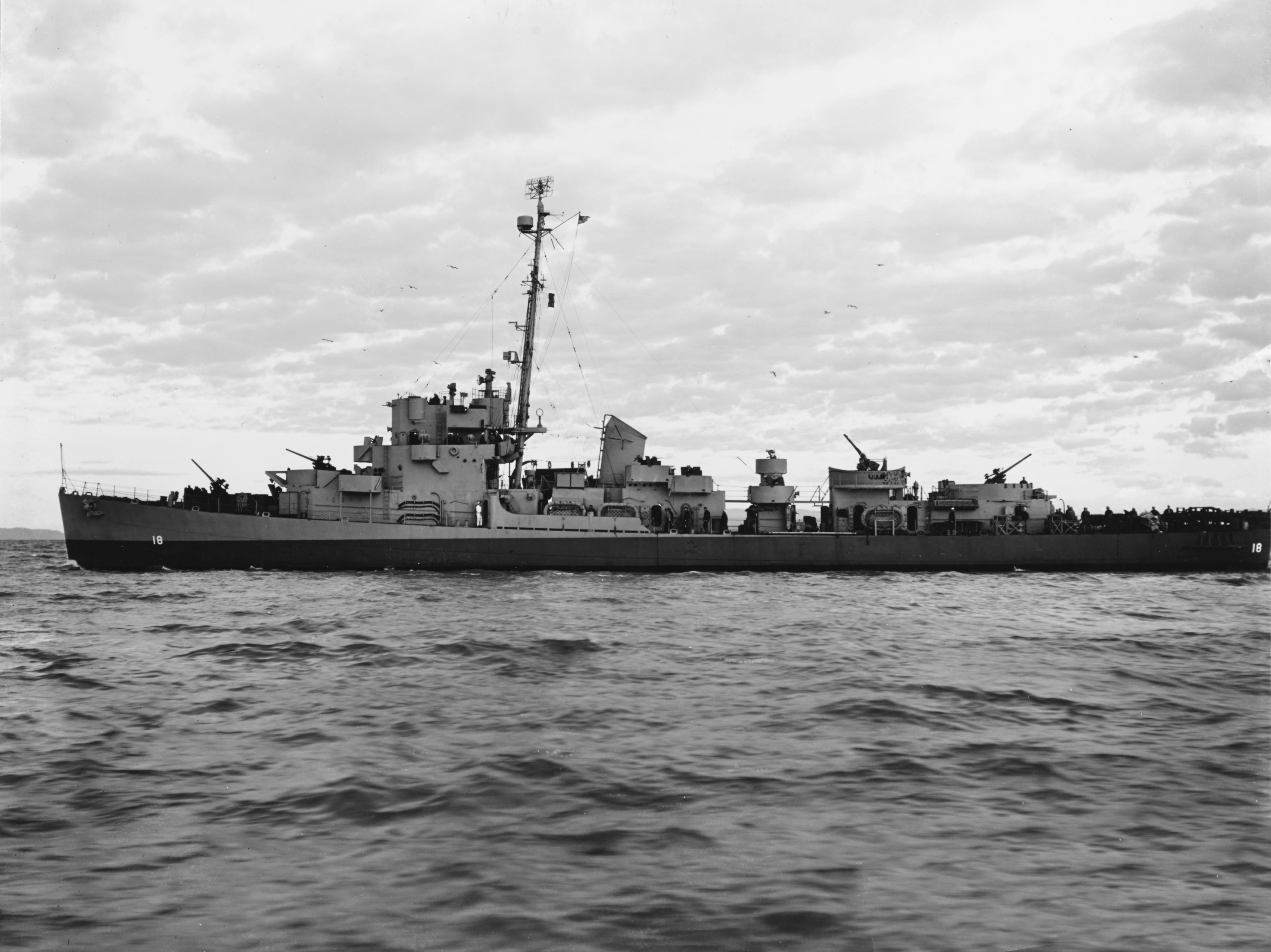 The U.S. Navy destroyer escort USS Gilmore (DE-18) off the Mare Island Naval Shipyard, California (USA), on 27 February 1945.